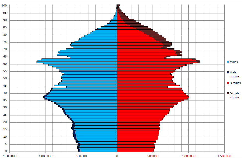 Population of Japan by age and sex (demographic pyramid) as on 2010-10-01 (19th national census of population)